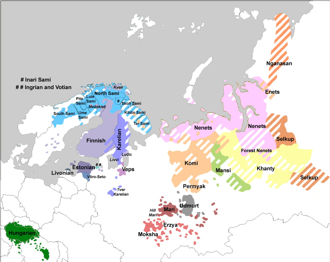 all uralic languages